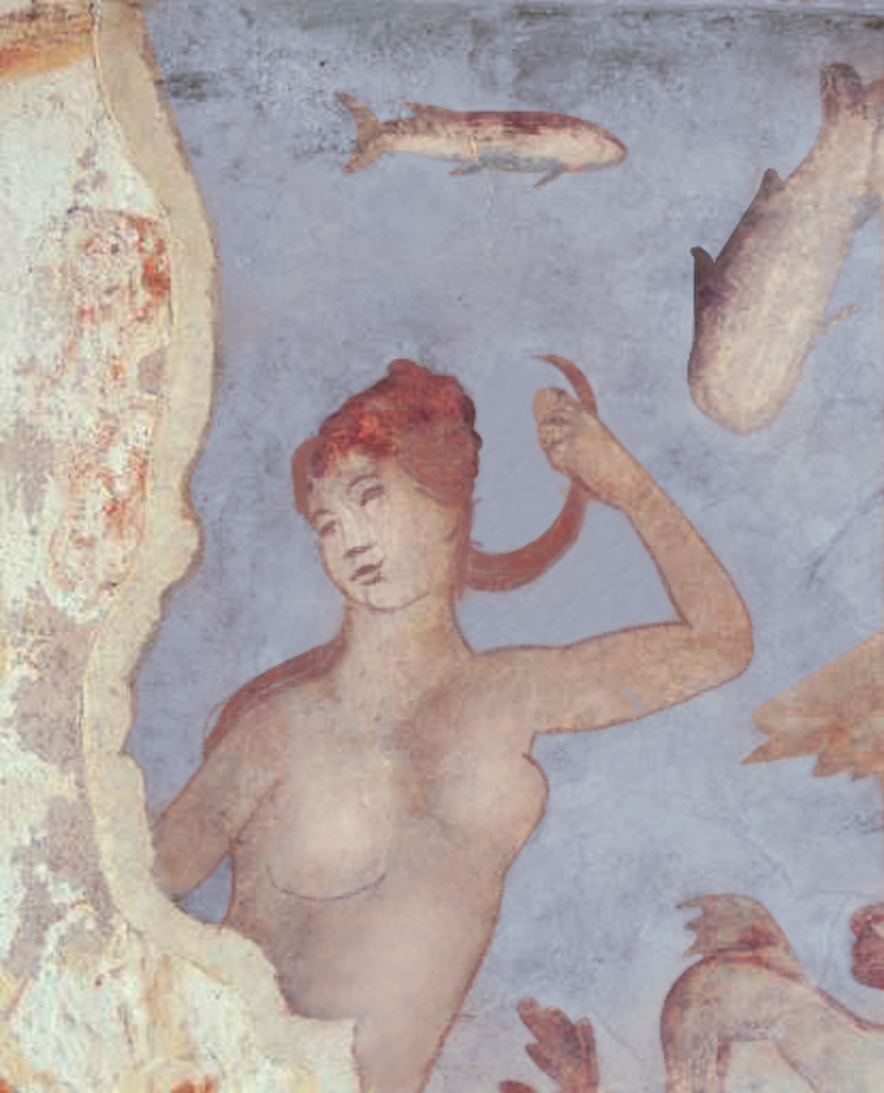 Venus at bath